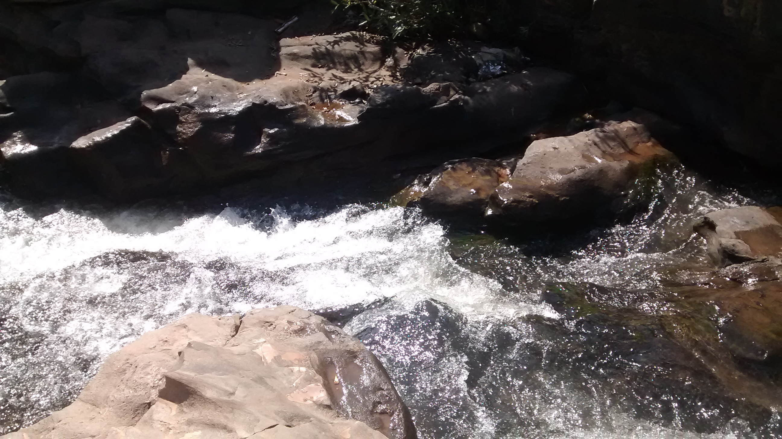 Picinic Spot of JSG and One of the finest natural heritage in Jharsuguda